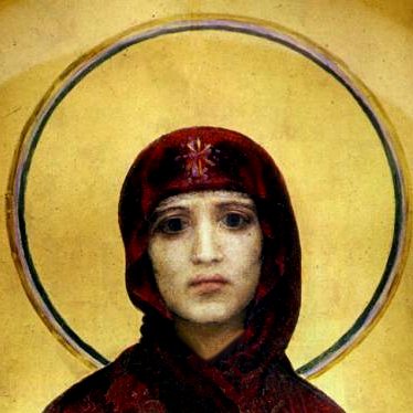 Icon's fragment - The Blessed Virgin Mary With Child by Mikhail Vrubel, Ukraine, Kiev, St. Cyril's Monastery